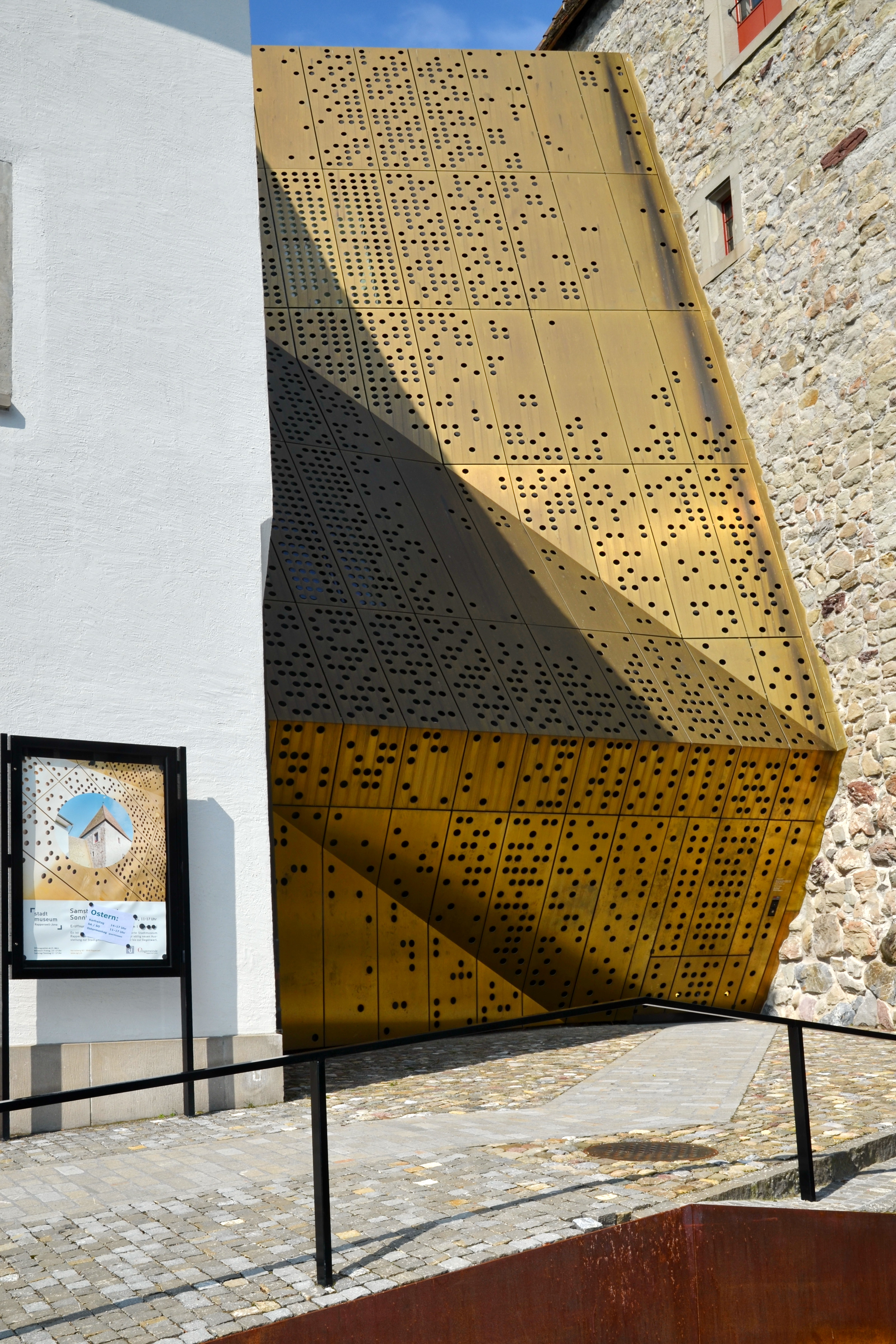 Finished renewal in 2010/12 of the Stadtmuseum buildings in Rapperswil (Switzerland)